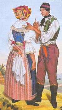 "Lidé z okolí Mikulova" (People from around Mikulov) - colorized lithograph by William Horn, Brno 1837